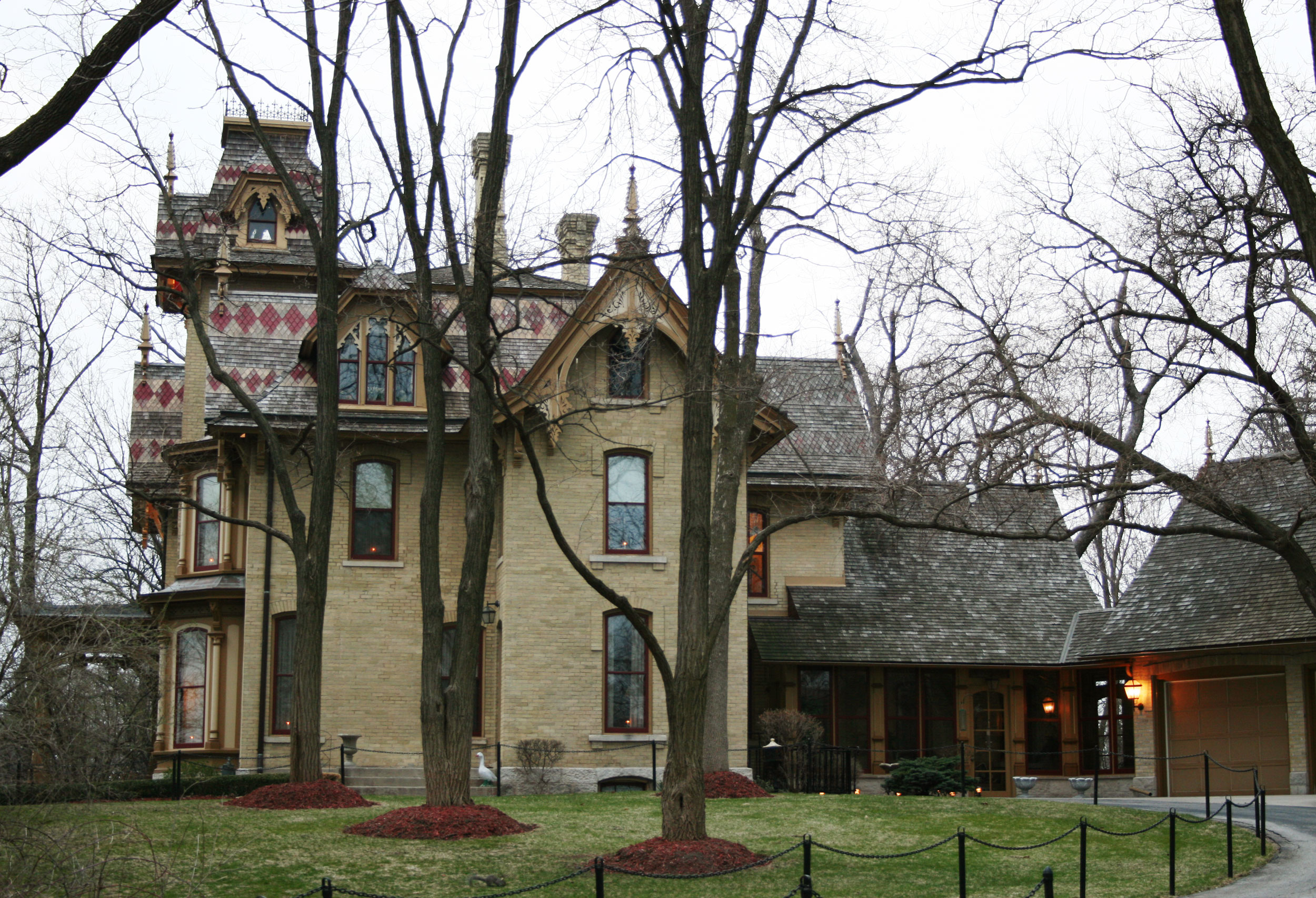 The Dr. Fisk Holbrook Day House, in Wauwatosa. I took this photograph and uploaded it on April 18, 2009.